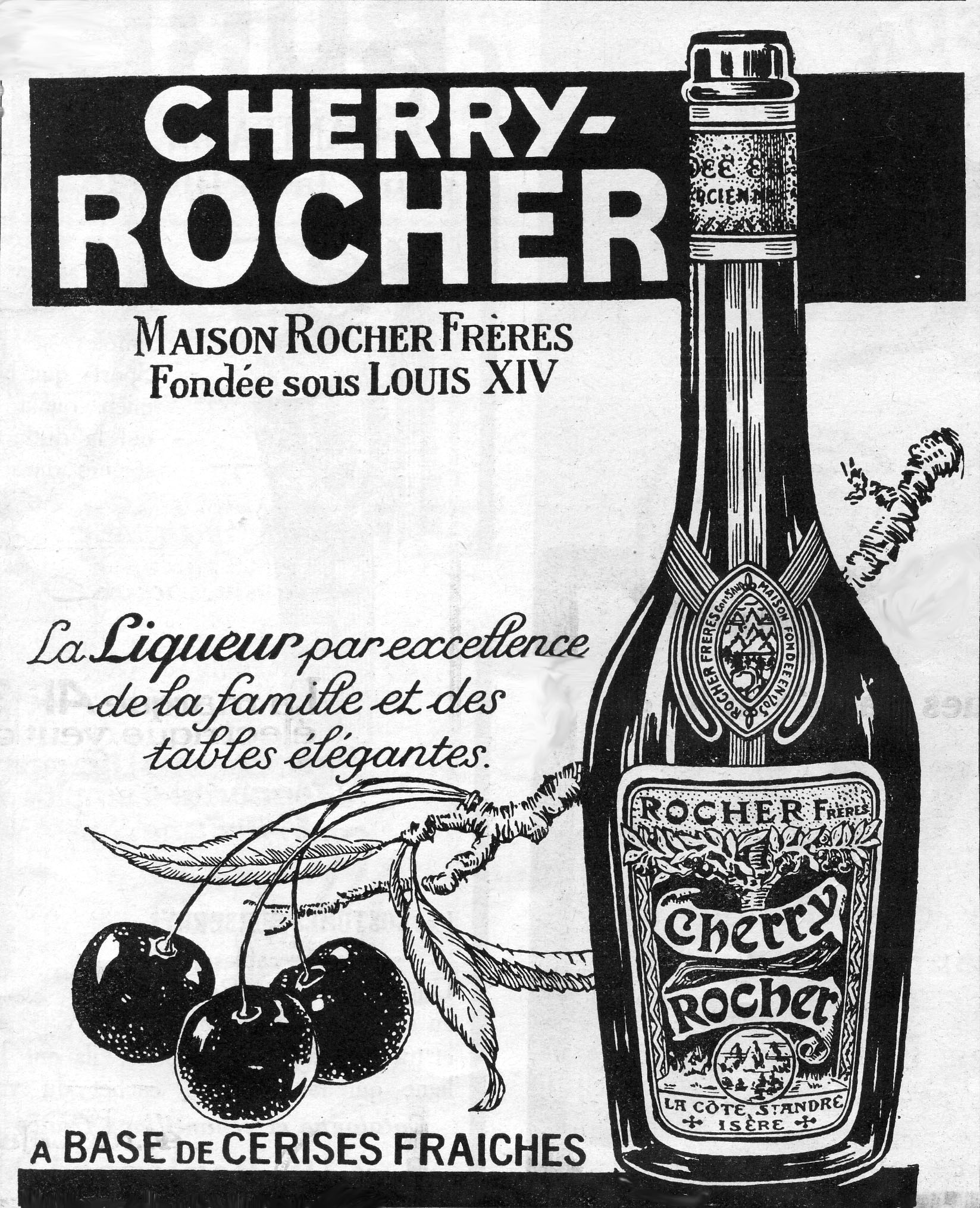 Cherry-Rocher liqueur : advertisement of 1923